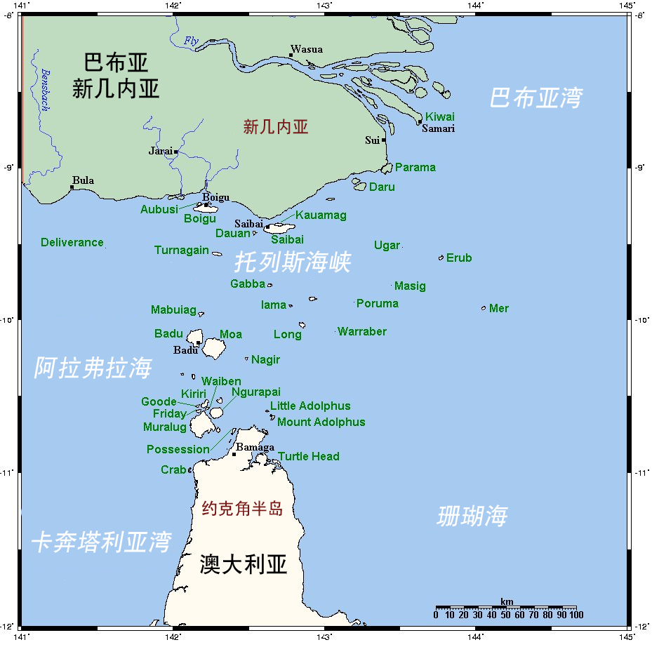 A map of the Torres Strait Islands. I have endeavoured to use native names wherever I could find them. If you can suggest ways in which this map could be made more up to date, don't hesitate to leave me a message to that effect. This map's source is here, with the uploader's modifications, and the GMT homepage says that the tools are released under the GNU General Public License. 许可协议 Category:地图